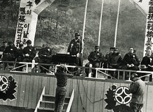 General Chae Myund shin and Park Chung-hee, June. 1953